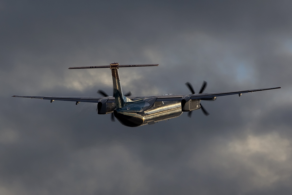 London-City